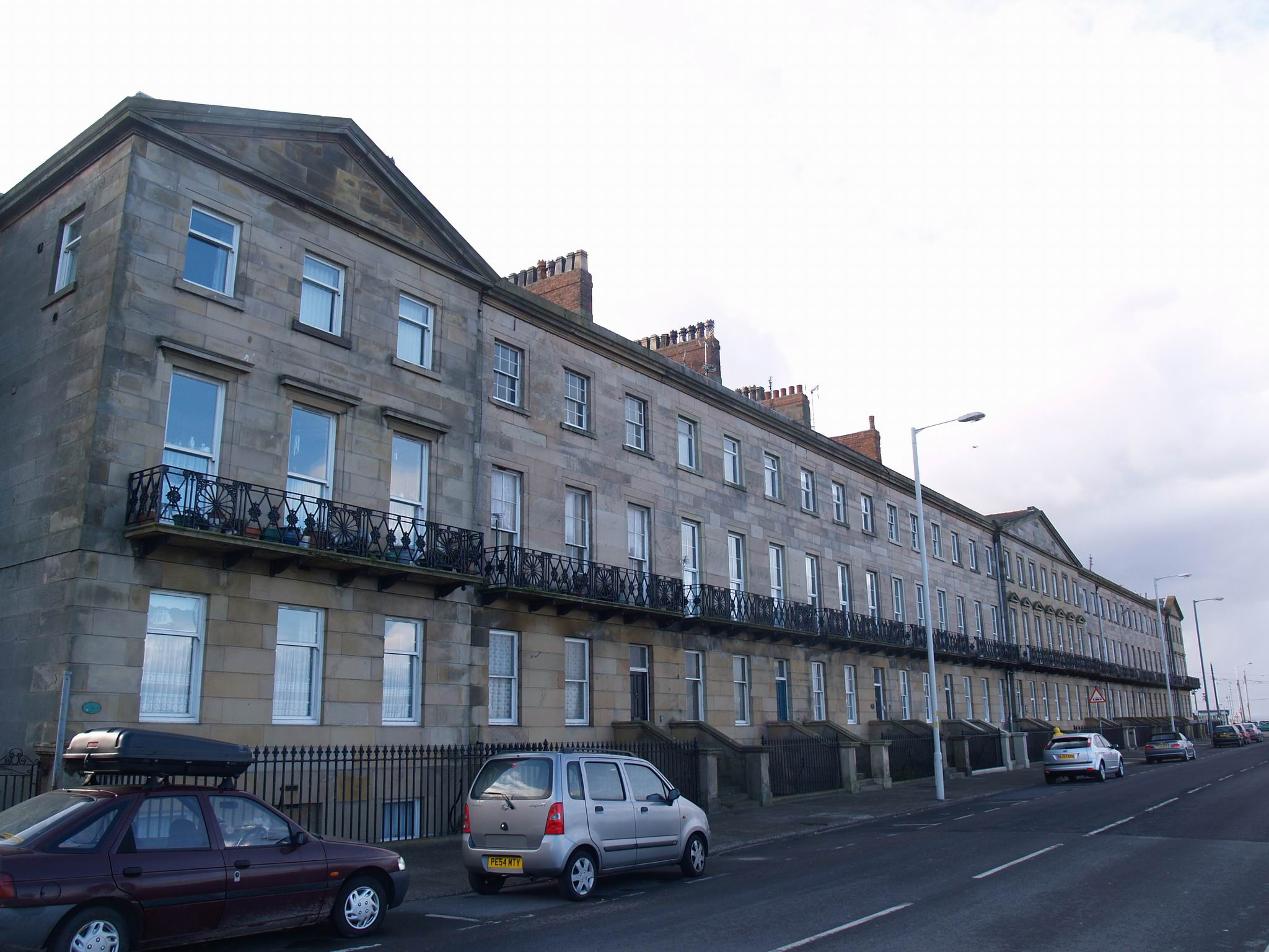 Fleetwood-Mar 2008-Queen's Terrace (1844)